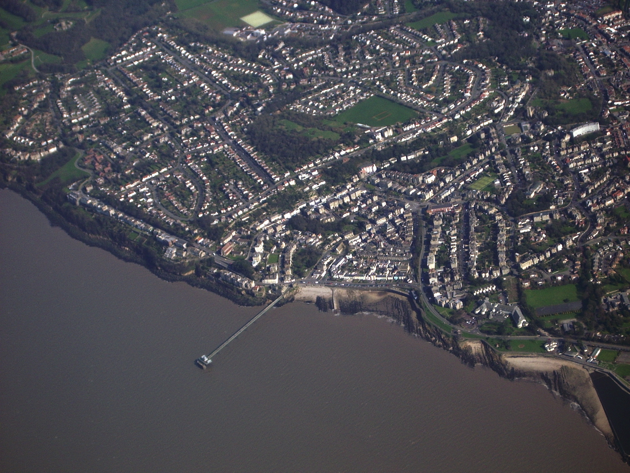 Photograph of Clevedon, Somerset, UK, taken from a commercial airliner, on 13th March 2007